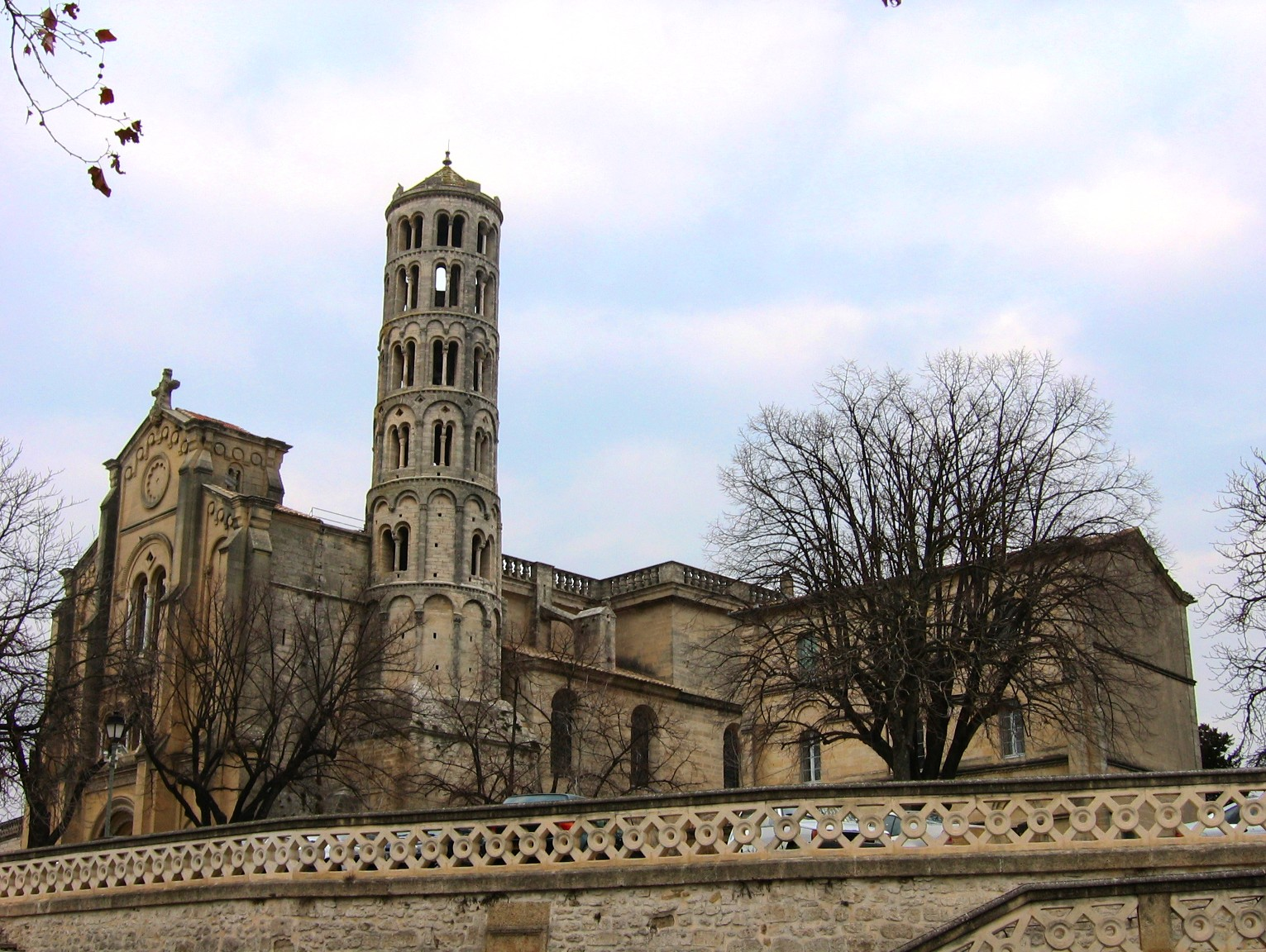 Uzès - Castle : Cathedral Saint Théodorit.